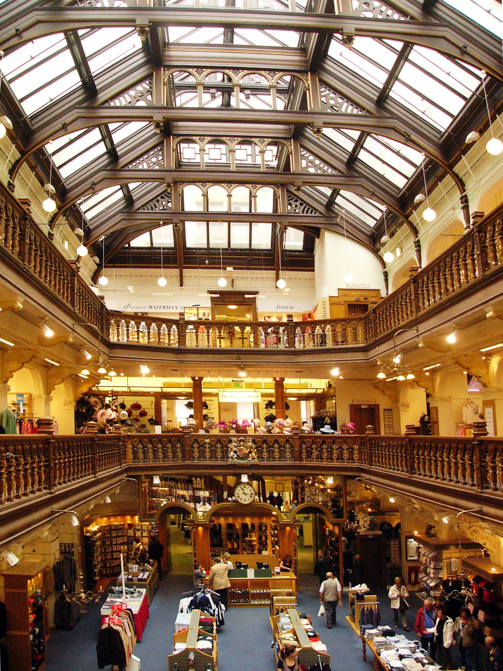 Interior of "Jenners" department store in Princes Street.